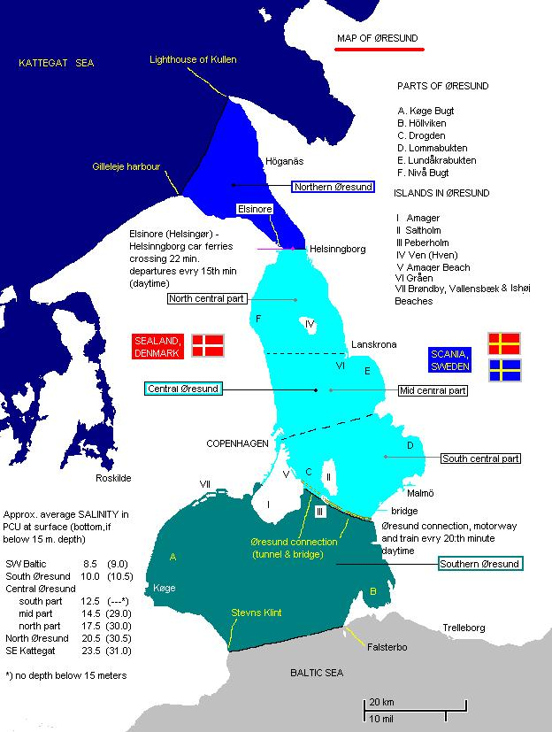 Map of the sound, Øresund, between Sealand, Denmark and Scania, Sweden. Focus at the sea. Øresund lies between the salt oceanic Kattegat and low salinity Baltic sea. Northern, Central and Southern parts (andcentral part is divided into three sub-parts.A table shows approx average salinity at surface and bottom (if deeper than 15 m). The Øresundconnection (bridge and tunnel.parts). All major islands and bays mentioned. (Øresund lacks larger outflews, i.o.w. rivers) Also names of coast cities and towns, like f.i. Copenhagen.